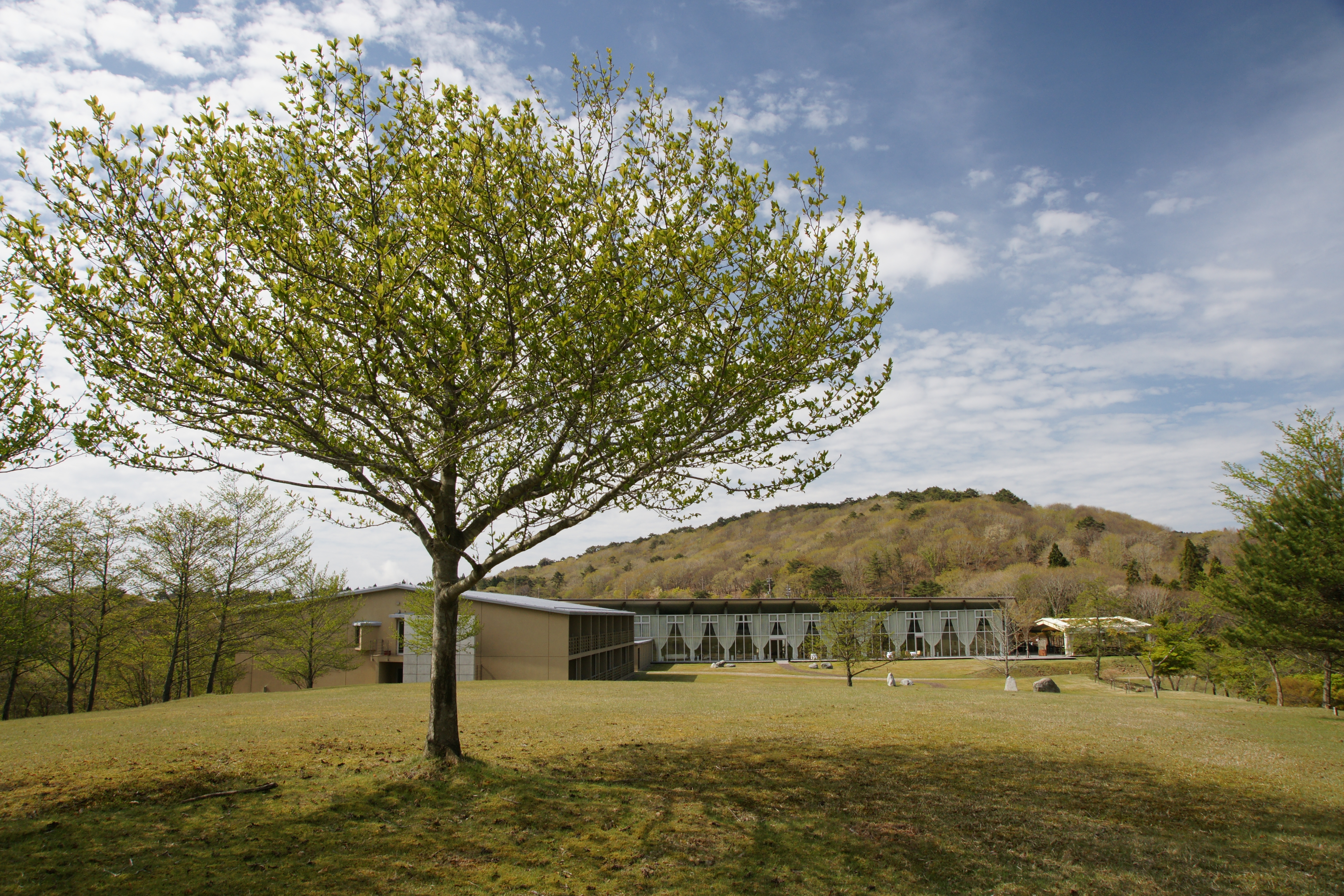 Relaxia Mineyama Kogen Hotel in Mineyama highlands, Kamikawa, Hyogo prefecture, Japan.